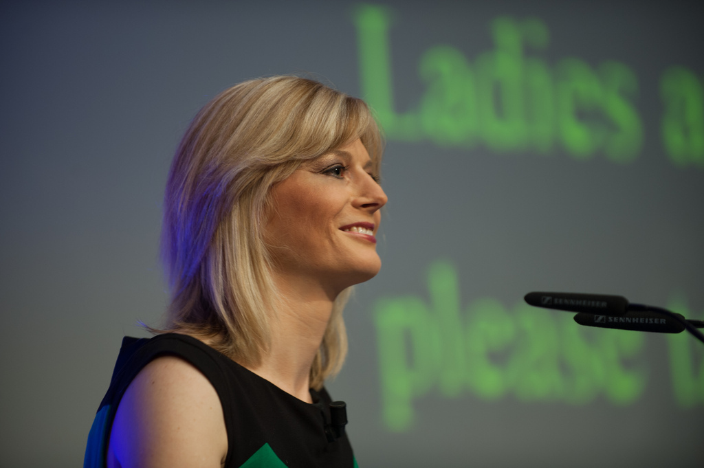 International Telecommunications Union WSIS forum conference in Geneva, 2013